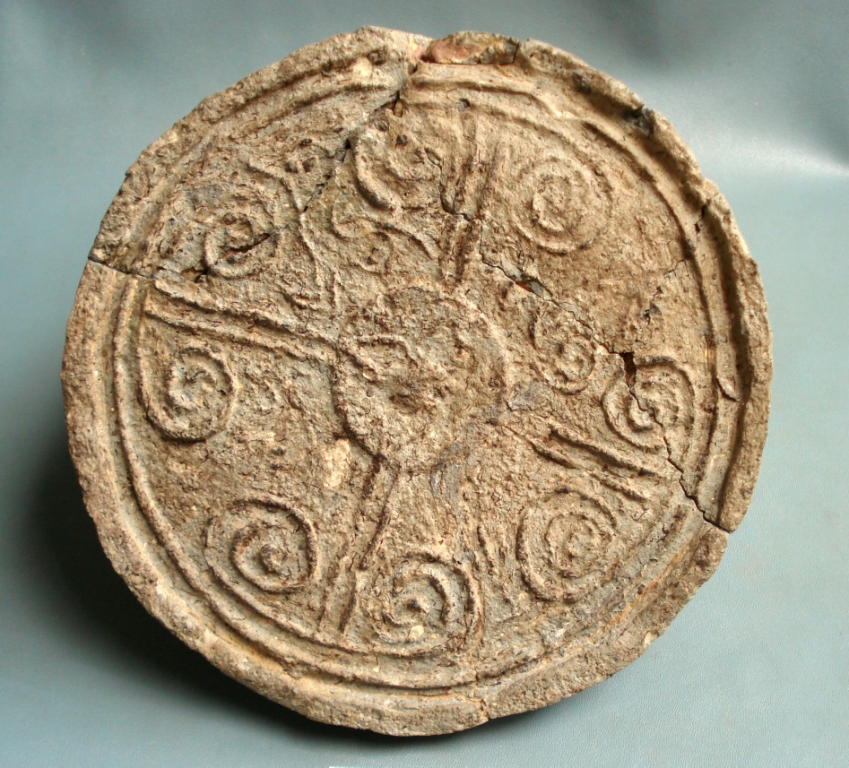 Ceramic eaves tile found in Co Loa archaeological site, dating about 212-154 BCE.